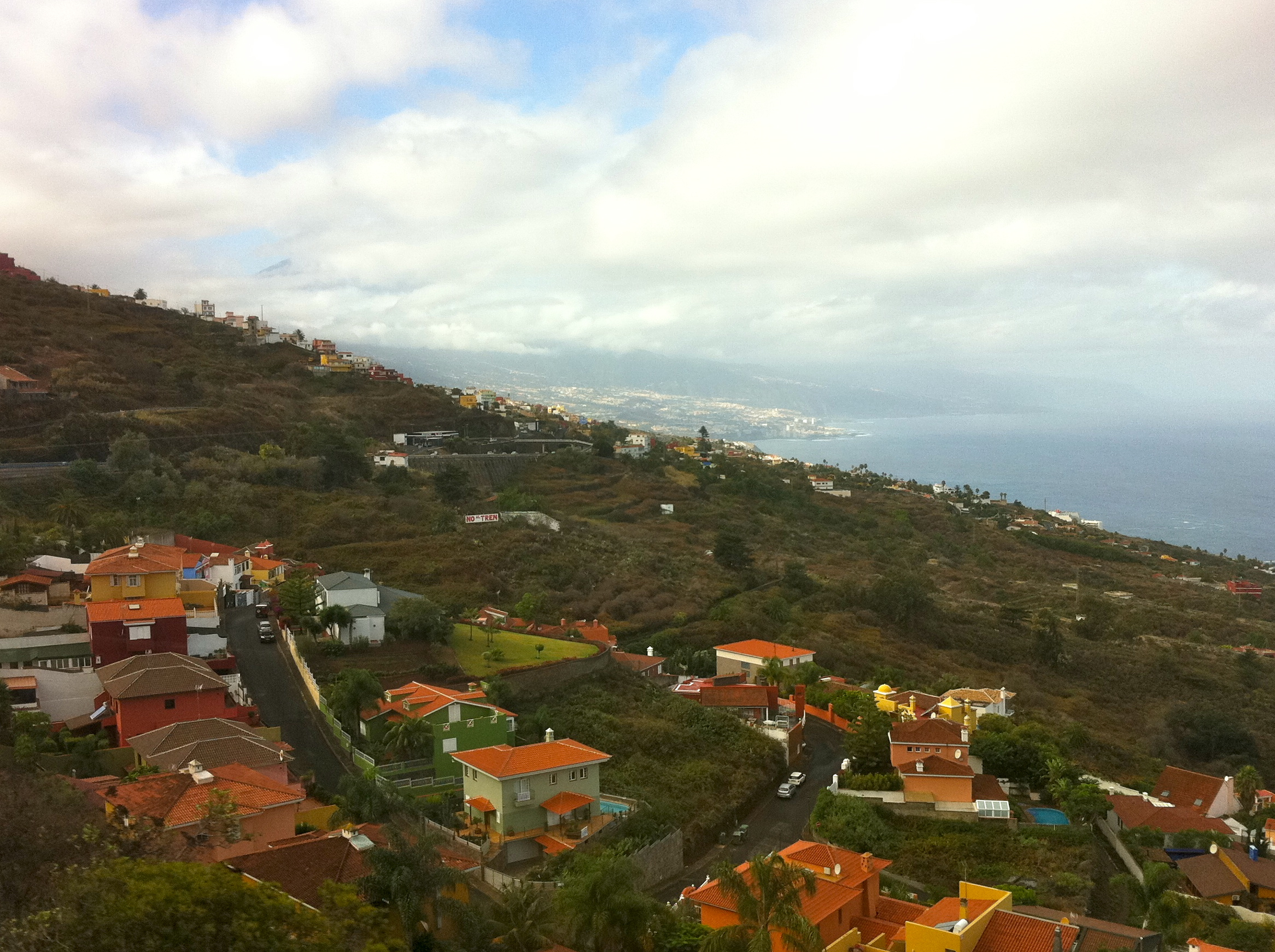 Tenerife, northern coast